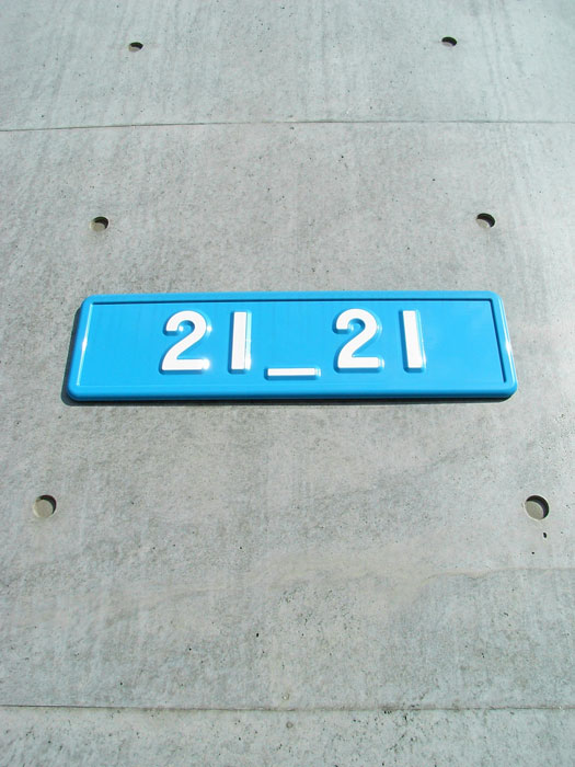 Logo of 21_21 Design Sight in Tokyo Midtown